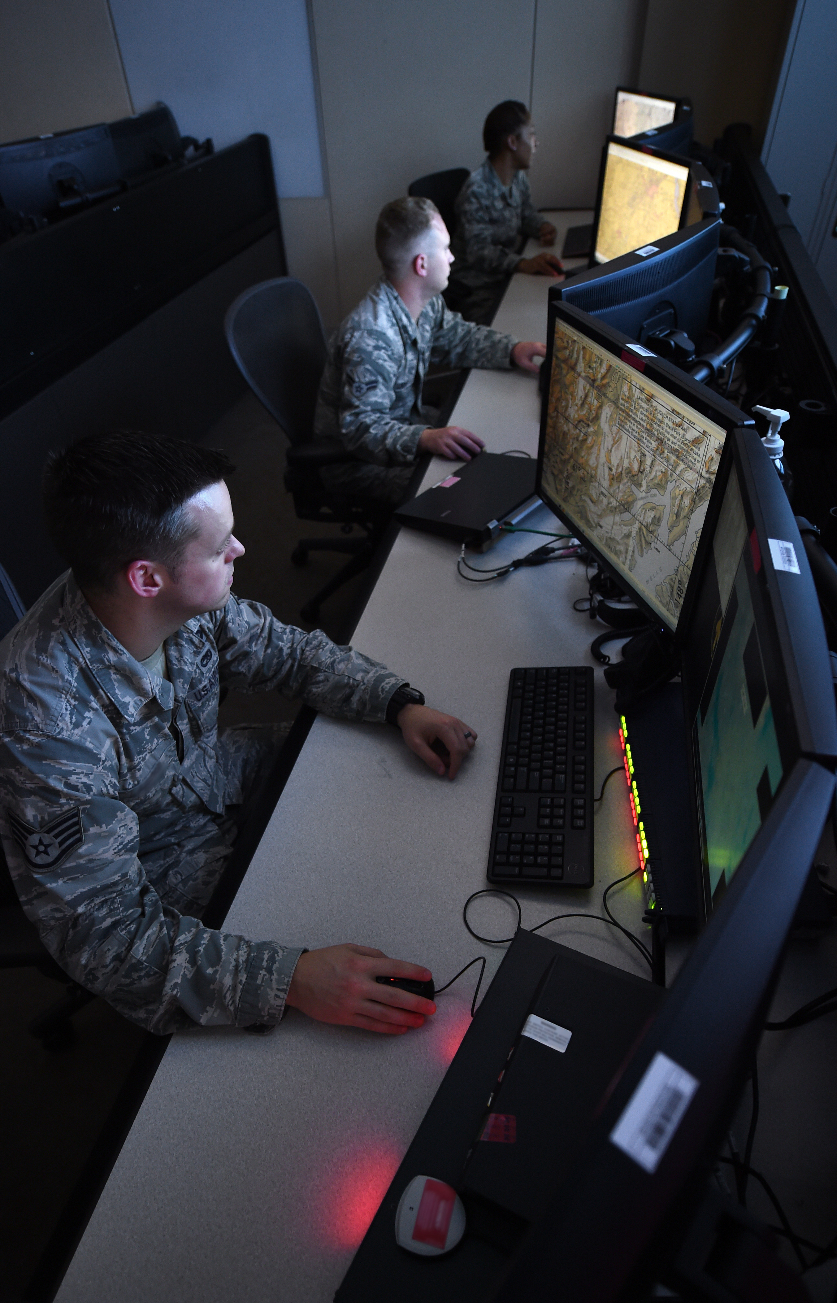 Analysts assigned to the 11th Intelligence Squadron review mission data on Hurlburt Field, Fla., June 11, 2015. The 11th IS executes procession, exploitation and dissemination of day and night imagery intelligence, from manned and unmanned aerial systems. (U.S. Air Force photo/Airman Kai White/Released) (Portions of this image were blurred for security or privacy concerns)